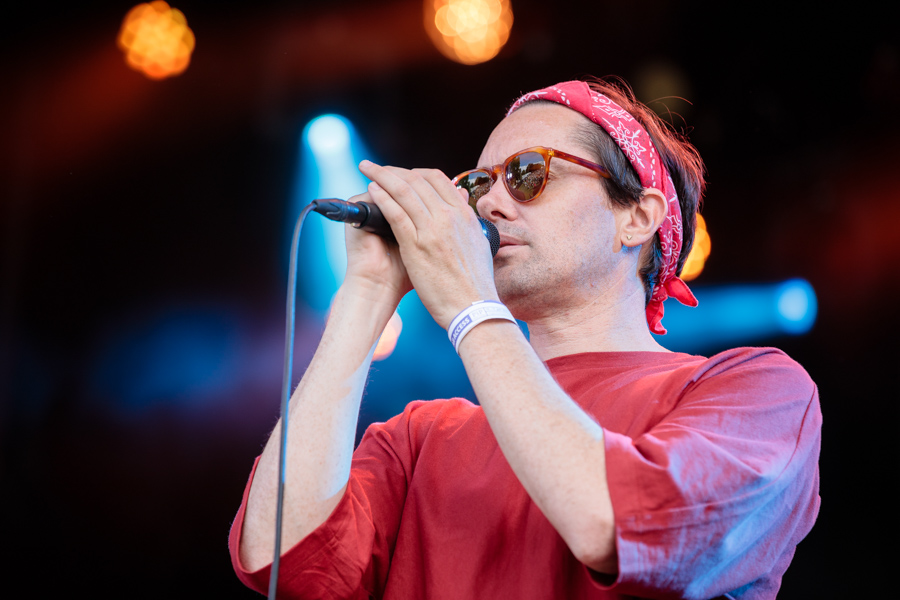 Mike Milosh in a concert with Rhye at the Vigeland stage in the Vigeland Park. The concert was part of Piknik i Parken and took place on 16. June 2018 in Oslo. Lineup:Mike Milosh (vocal)Unidentified (organ)Unidentified (bass guitar)Unidentified (drums)Unidentified (guitar)Unidentified (fiddle)Unidentified (fiddle)